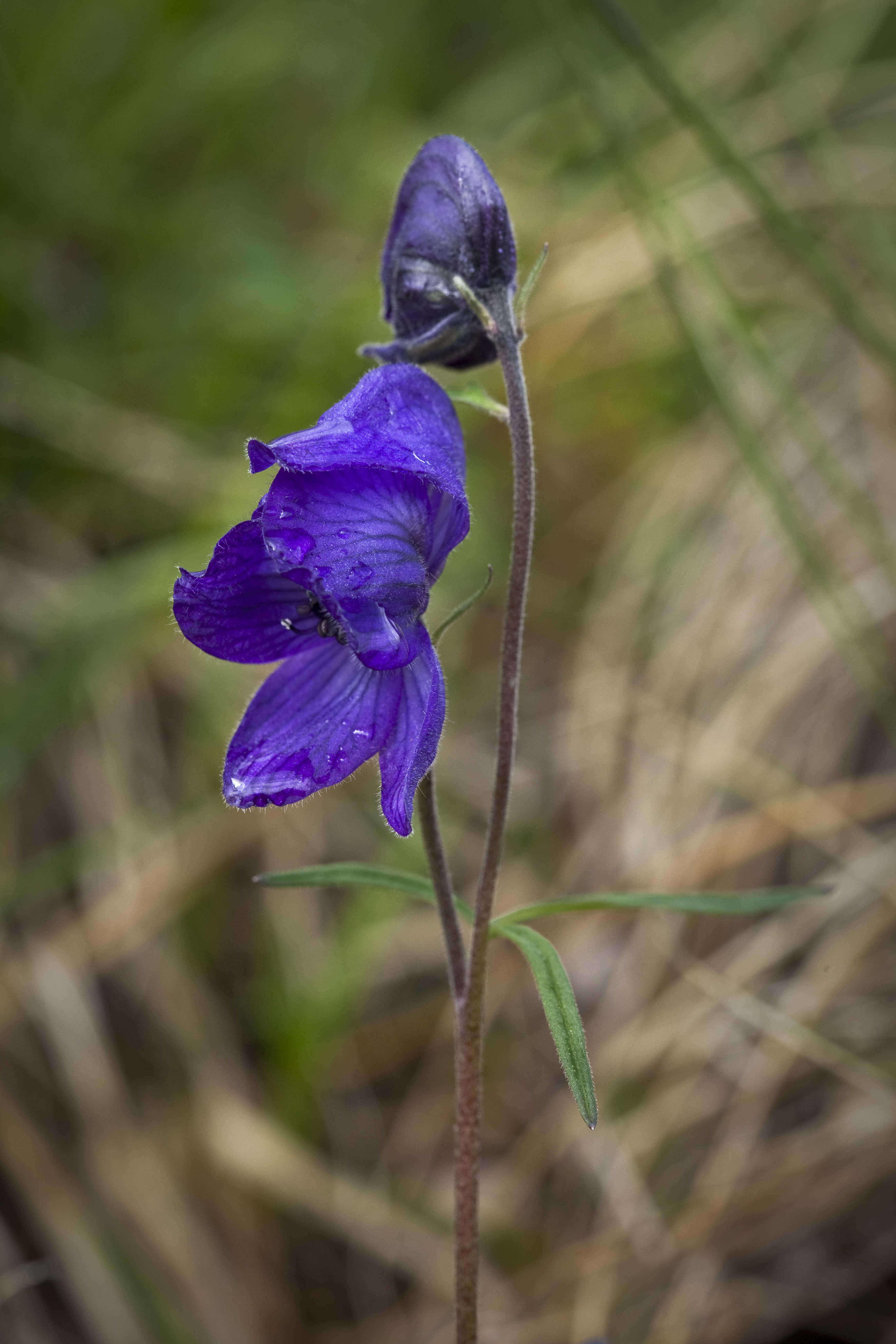 Aconitum delphinifolium ssp. delphinifolium, Denali National Park and Preserve, AK, USA